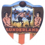 The Badge of Sunderland A.F.C. in 1890